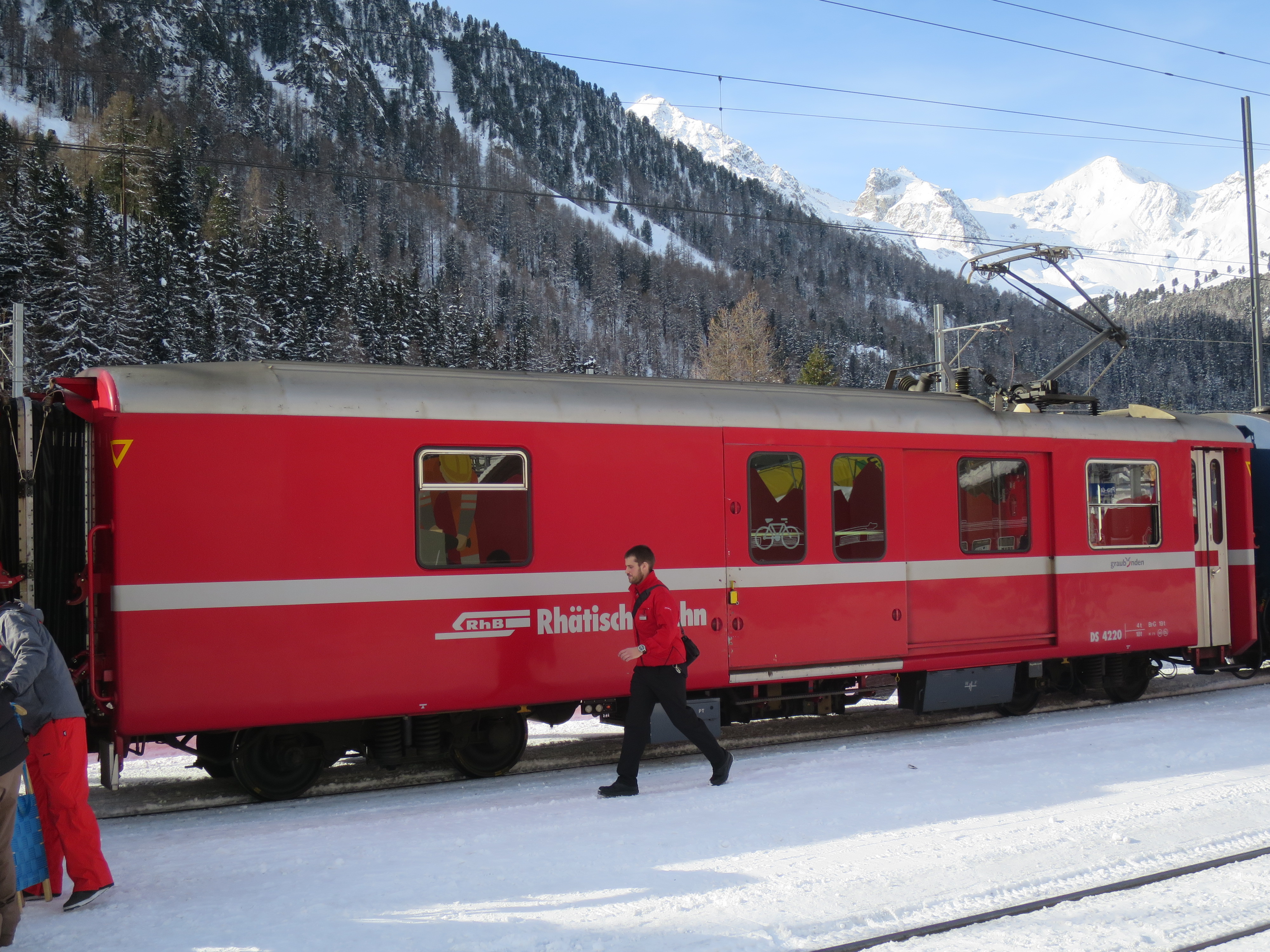 Luggage van of Rhätische Bahn with transformer to provide the train with electric power, Preda Station